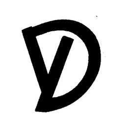 The Dawson trademark was registered on 1975-05-27 and was cancelled on 1983-07-05. Dawson is no longer a registered trademark. The US Patent and Trademark Office records state "This registration was not renewed and therefore expired." This status change happened on 1983-07-05. Serial Number: 73090105, Registration Number: 1058366.